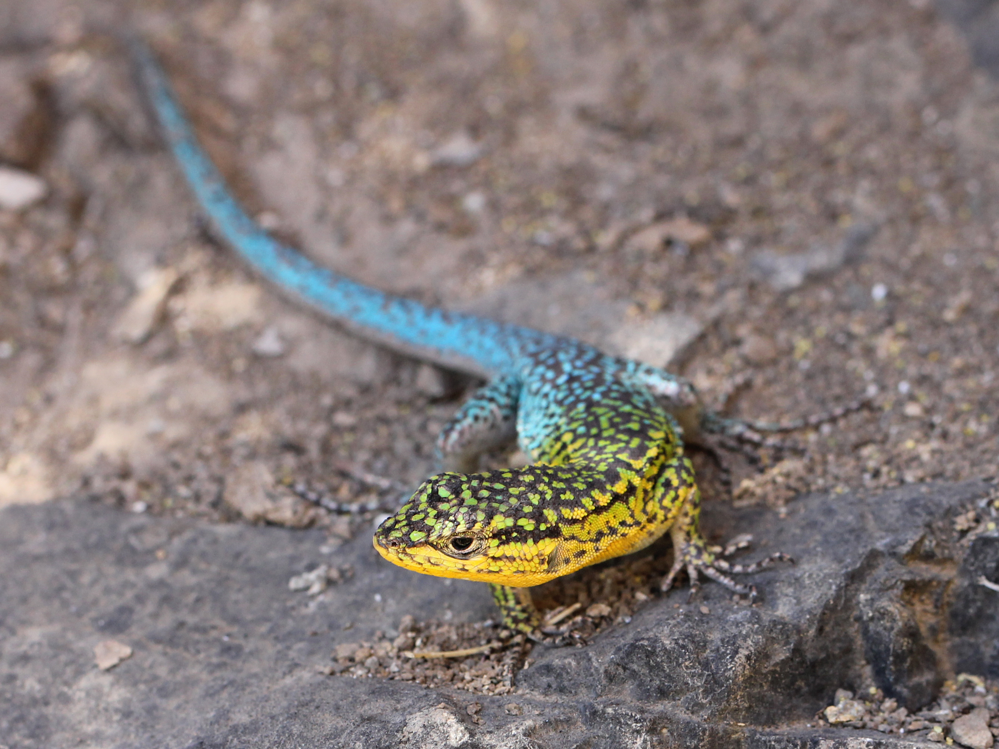 Liolaemus tenuis in Maipo Canyon, Chile (near San Alfonso)